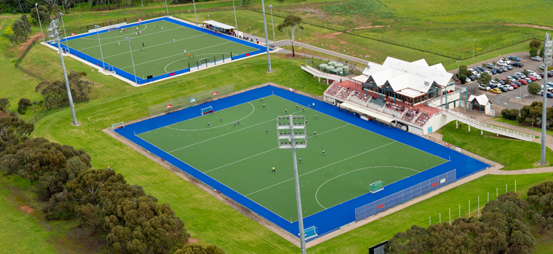 State Hockey Centre Gepps Cross, South Australia